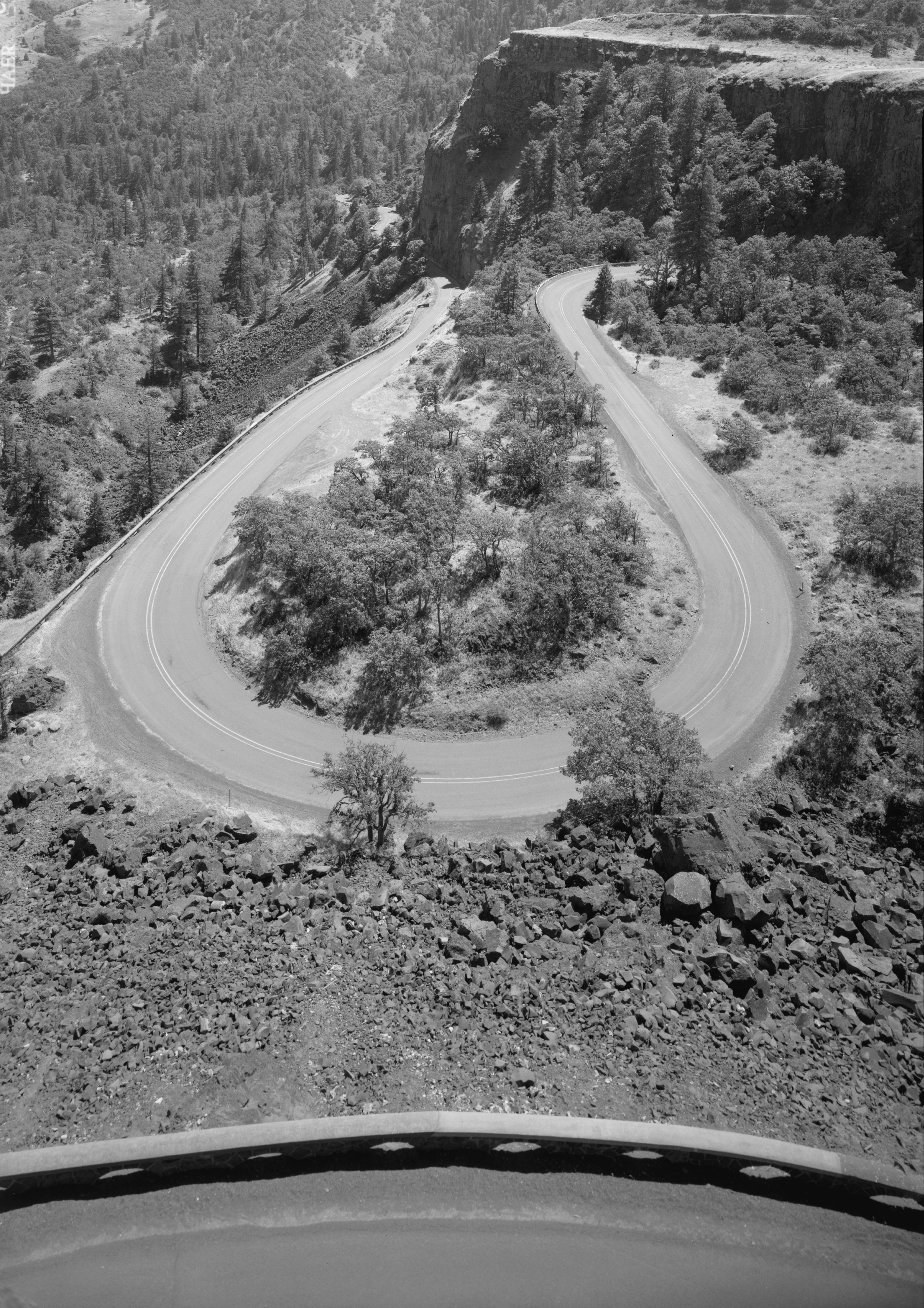 Historic Columbia River Highway, Troutdale vicinity, Multnomah County, OR. View looking south from Rowena Crest to Rowena Loops. One Hairpin turn is visible.